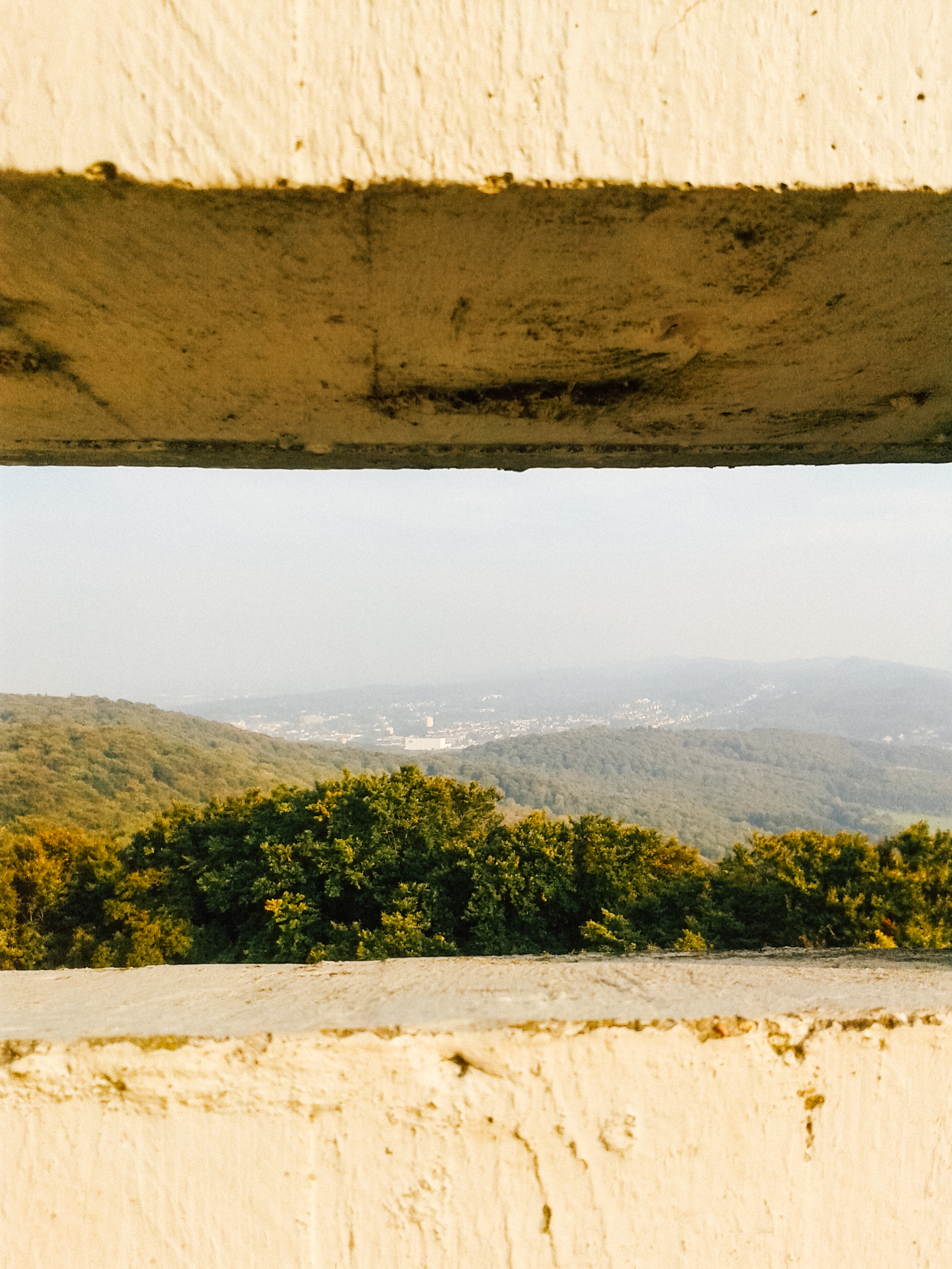 Hünenburg Telecommunication Tower